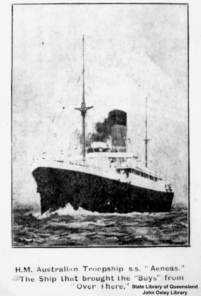 Blue Funnel Line's 10,049 GRT 14 knot steamship Aeneas, built in 1910 by Workman, Clark & Co in Belfast. In the First World War she served as an H.M. Australian troop ship.